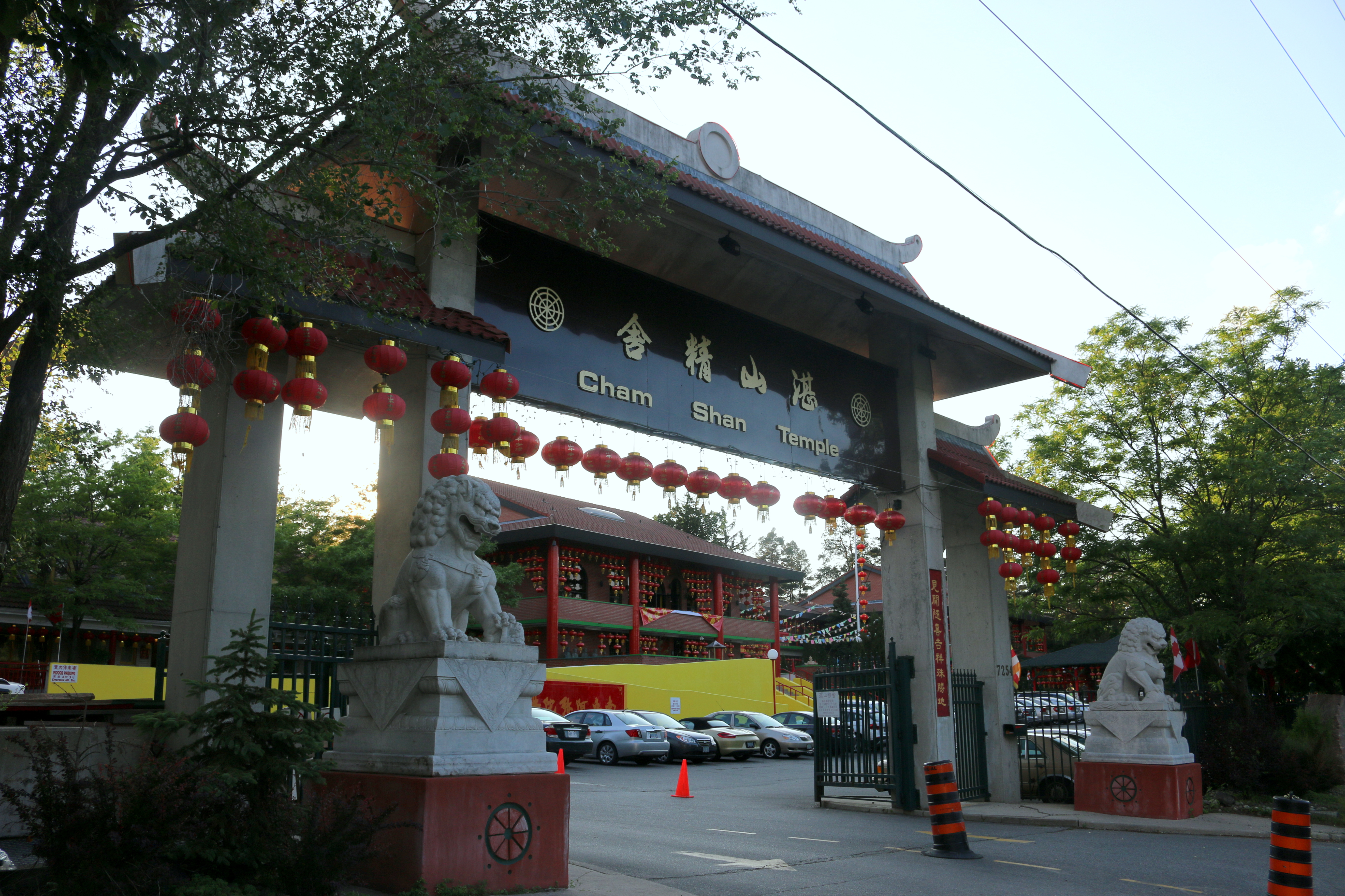 Cham Shan Temple; a Chinese Temple in Toronto, Canada. Photo: Persian Dutch Network (2014)